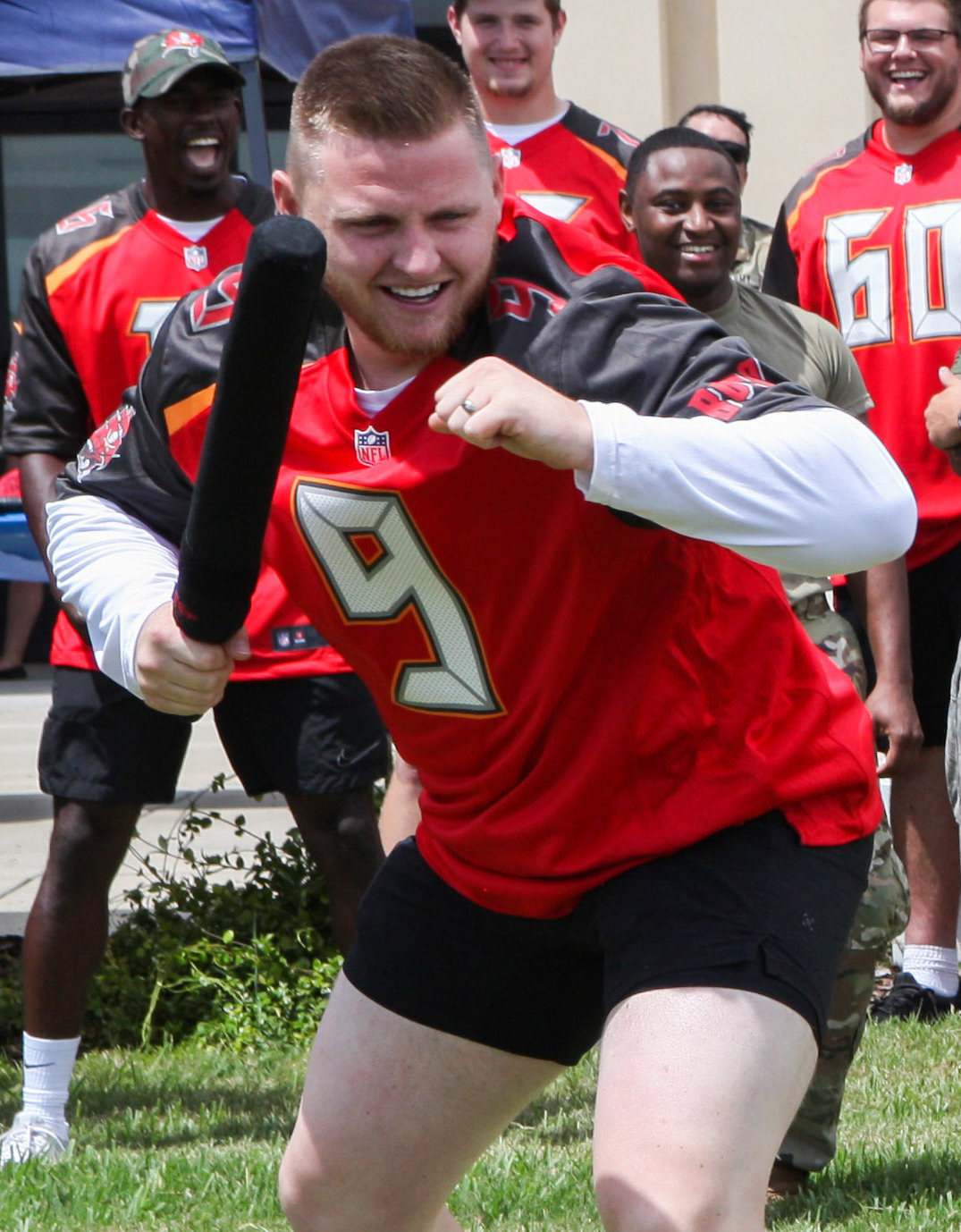 Tampa Bay Buccaneer, Matt Gay squares off with a 6th Security Forces Squadron service member in a padded suit during a demonstration of security force capabilities at U.S. Central Command (USCENTCOM) headquarters, June 11, 2019. Buccaneer rookies visited the headquarters for a meet and greet with staff members and to learn about USCENTCOM’s mission. (U.S. Central Command Public Affairs photo by Tom Gagnier)